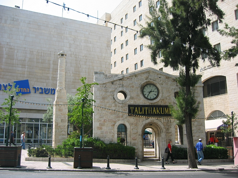 Jerusalem - New Hamashbir Lazarchan, 20, King George Street. The foreground includes the remains of the original Talitha Kumi school. The current Talitha Kumi campus is in Beit Jala. To the right is the Hotel Lev Yerushalayim.